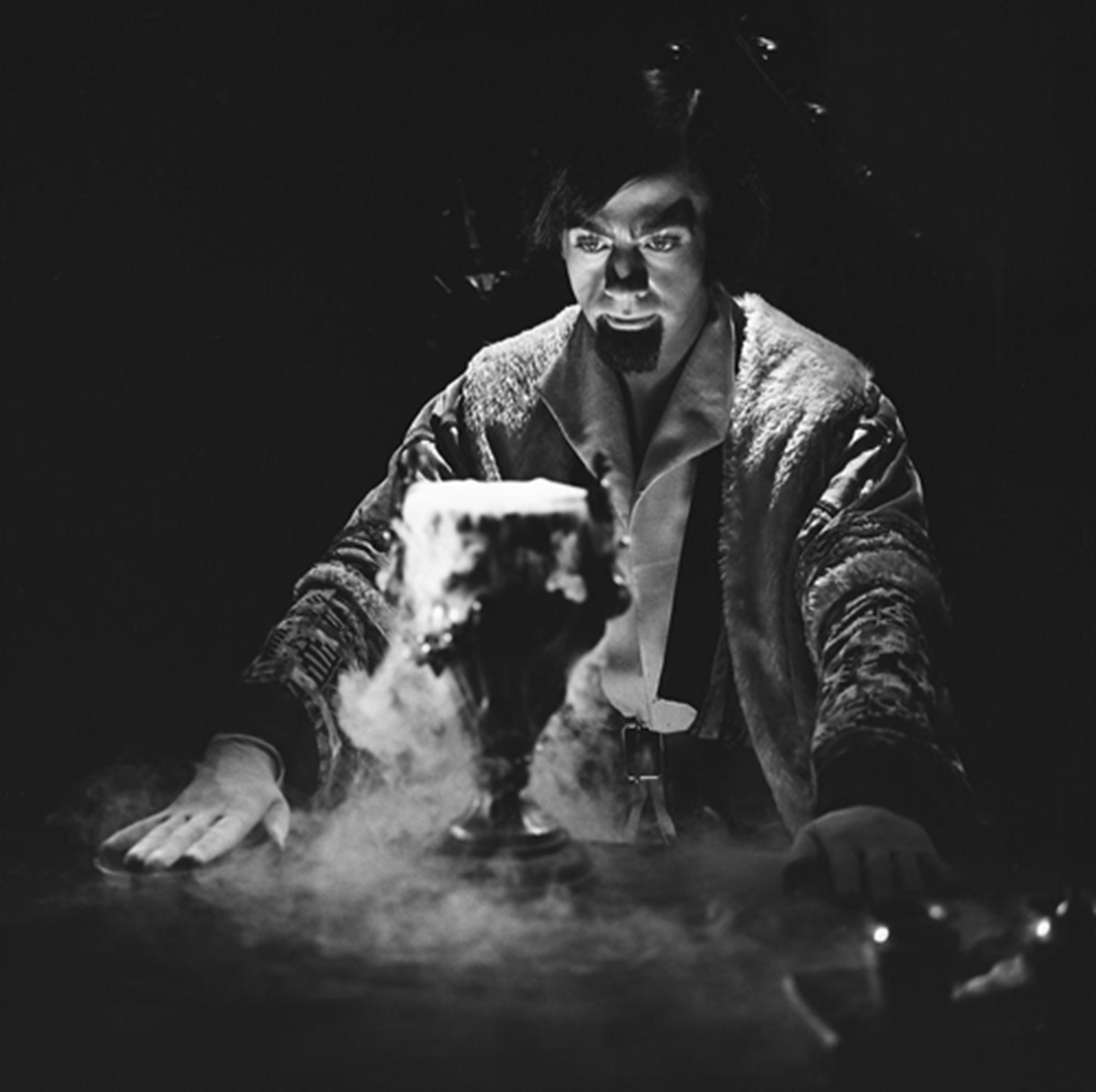 Dutch 1969 TV series Floris (Jos Bergman as Sindala)